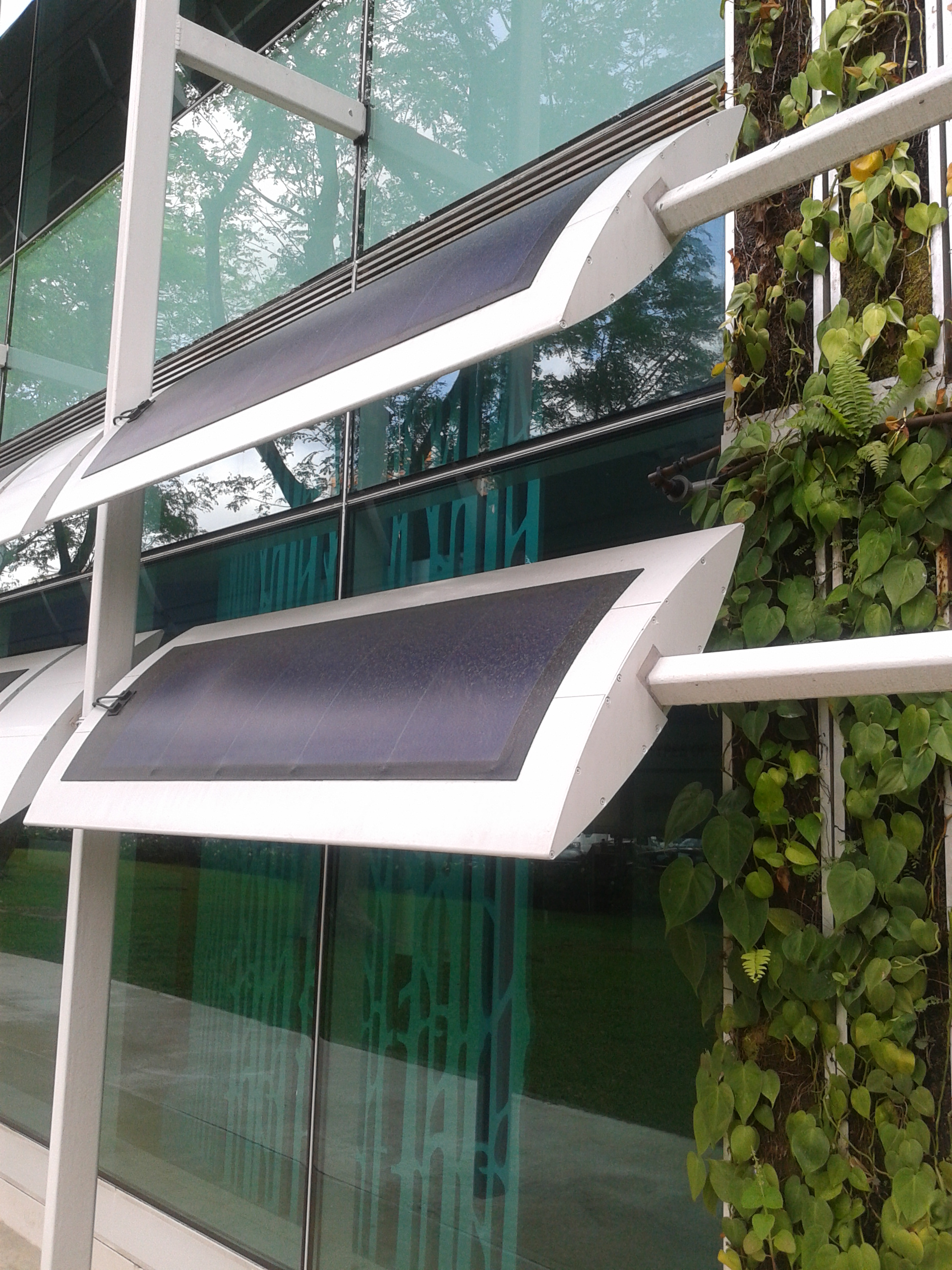 Thin Film photovoltaics as external shading device installed on a full glass facade in a zero energy building in Singapore